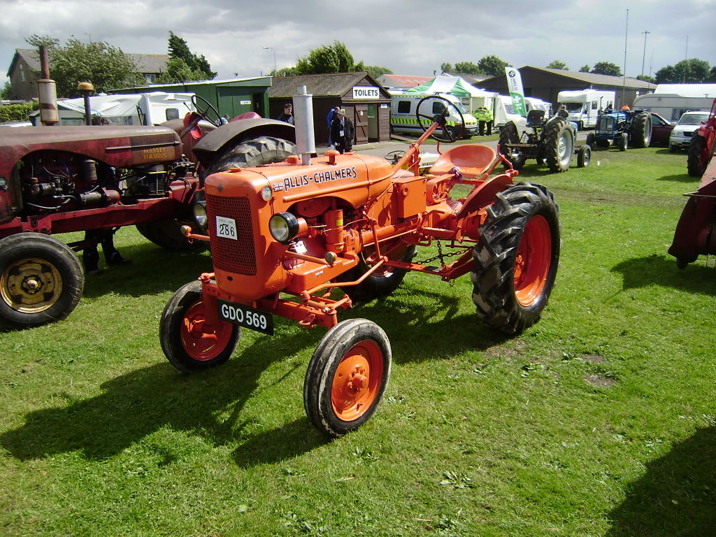 Allis-Chalmers Model B (reg GDO 569) at Driffield, East Riding of Yorkshire, England steam rally in 2008